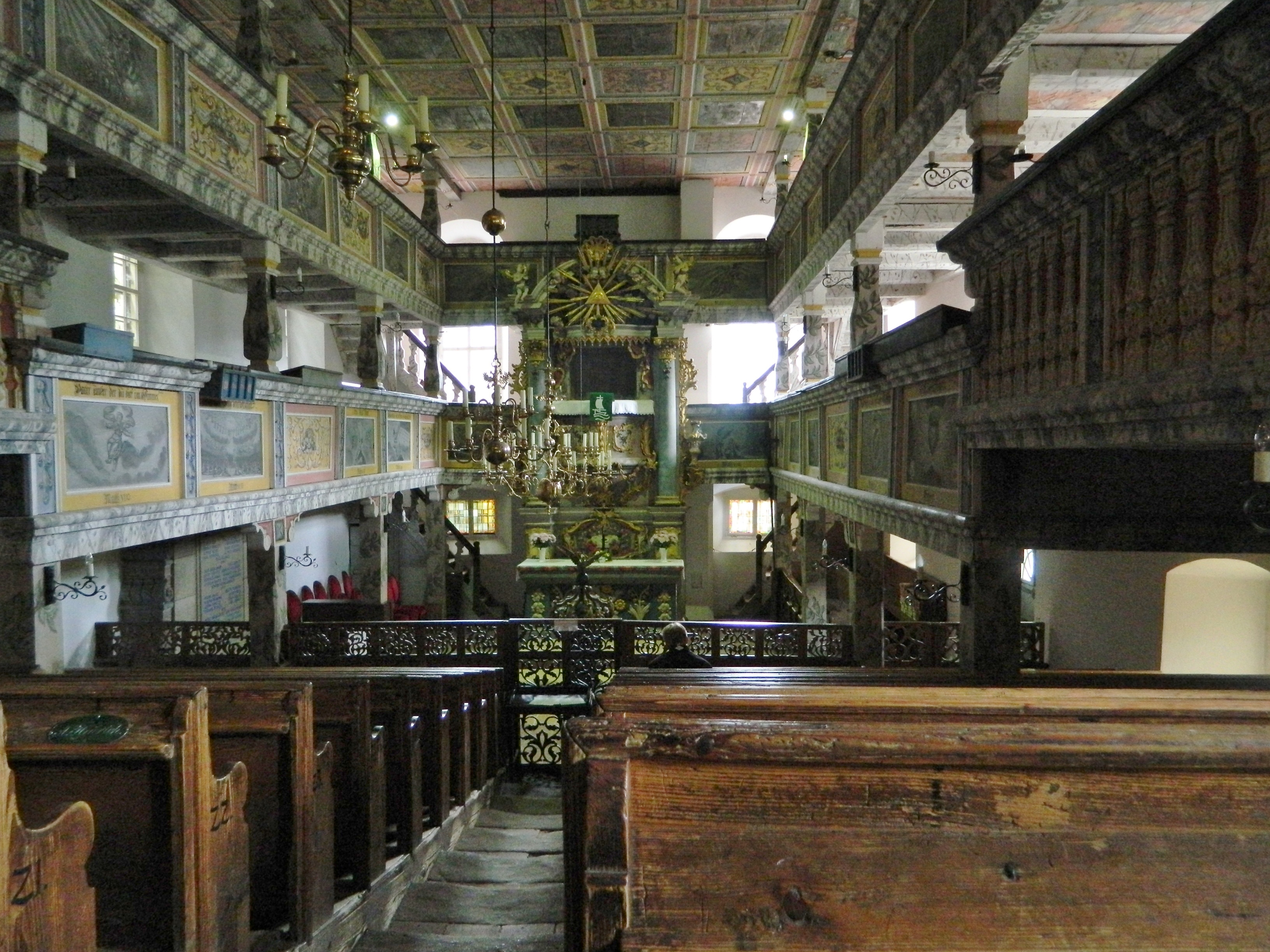 Mountain Church in Oybin